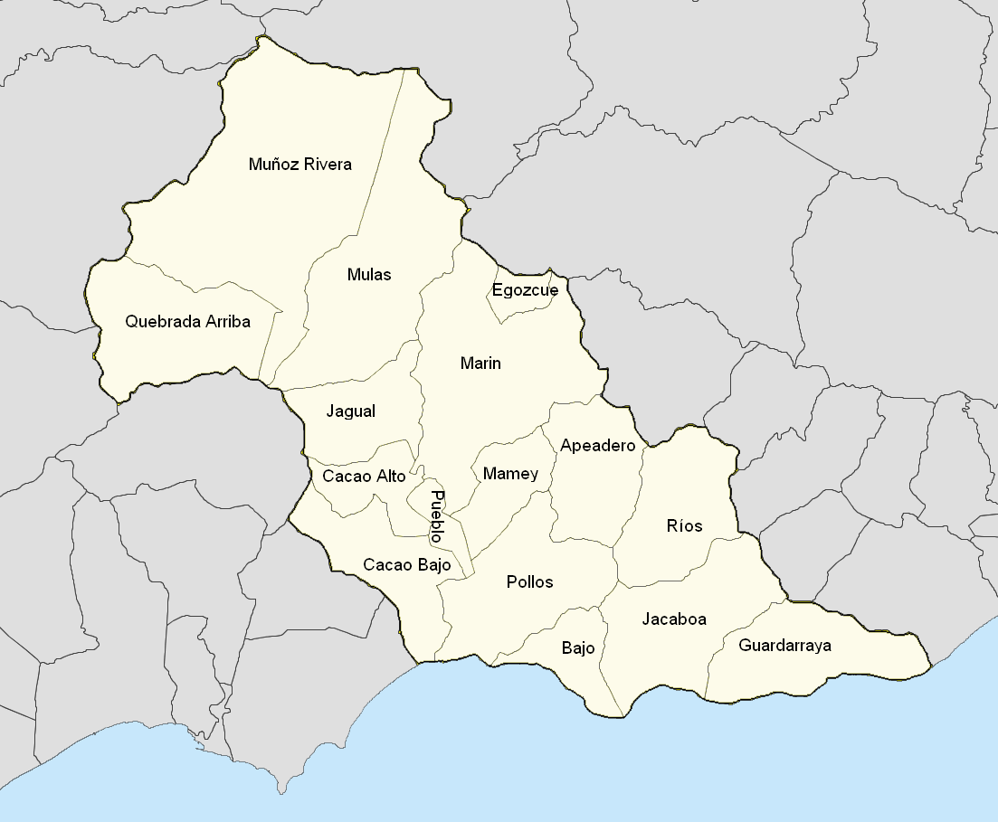 Barrios in the municipality. First version of Map scale is 1:200,000